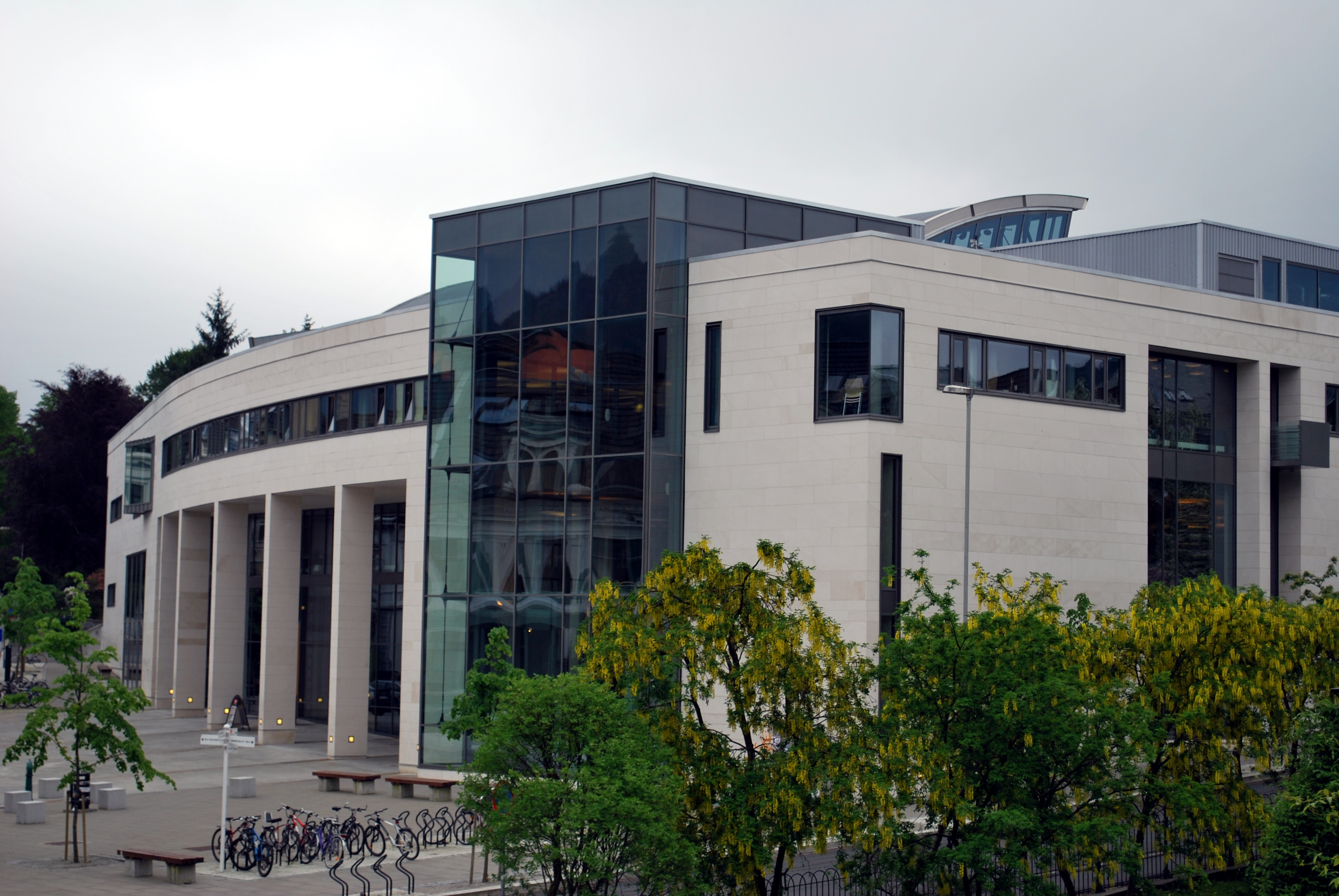 Students' welfare centre, Studentsenteret, University of Bergen.